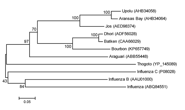 Phylogeny of deduced amino acid sequences of Bourbon virus in comparison to homologous sequences of selected orthomyxoviruses. A neighbor-joining method was used for inference of each phylogeny with 2,000 replicates for bootstrap testing. Values at nodes are bootstrap values. Based on nucleocapsid protein (segment 5). Scale bar indicates number of amino acid substitutions per site.